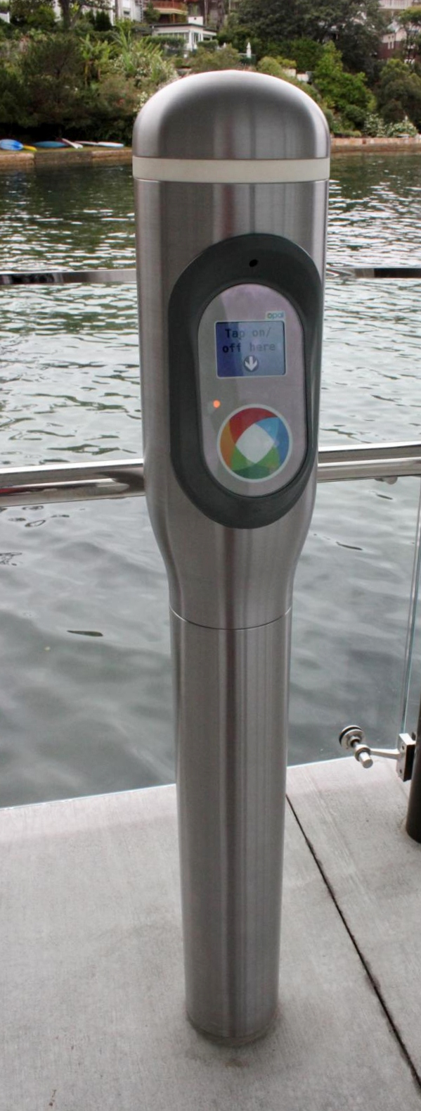 Standard card readers are the dominant type located at train stations and ferry wharves with no ticket barrier gates. Users should 'tap on' and 'tap off' to pay a fare accordingly to the distance traveled. This reader is located at Neutral Bay Ferry Wharf.